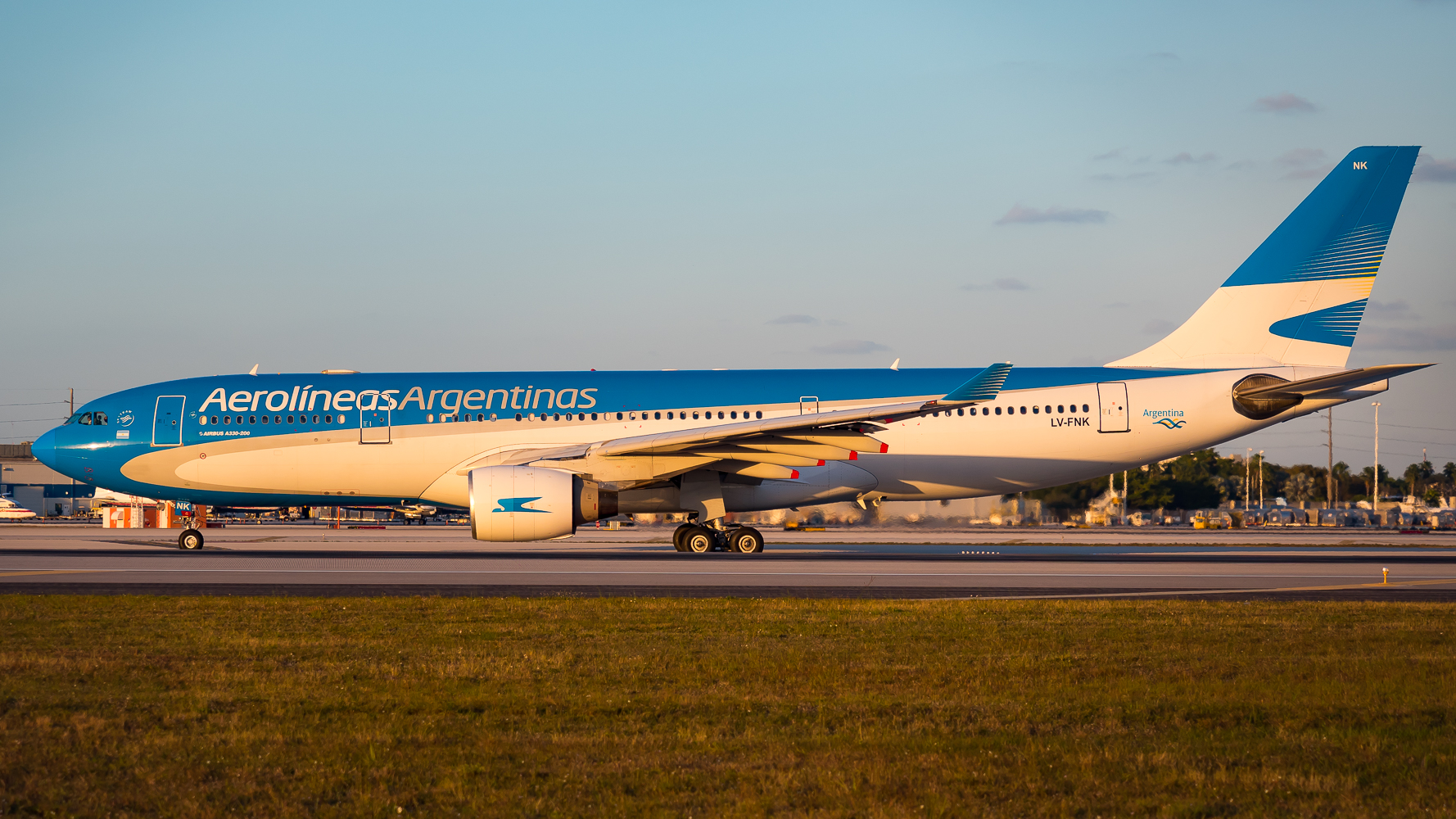 Spotting in Miami